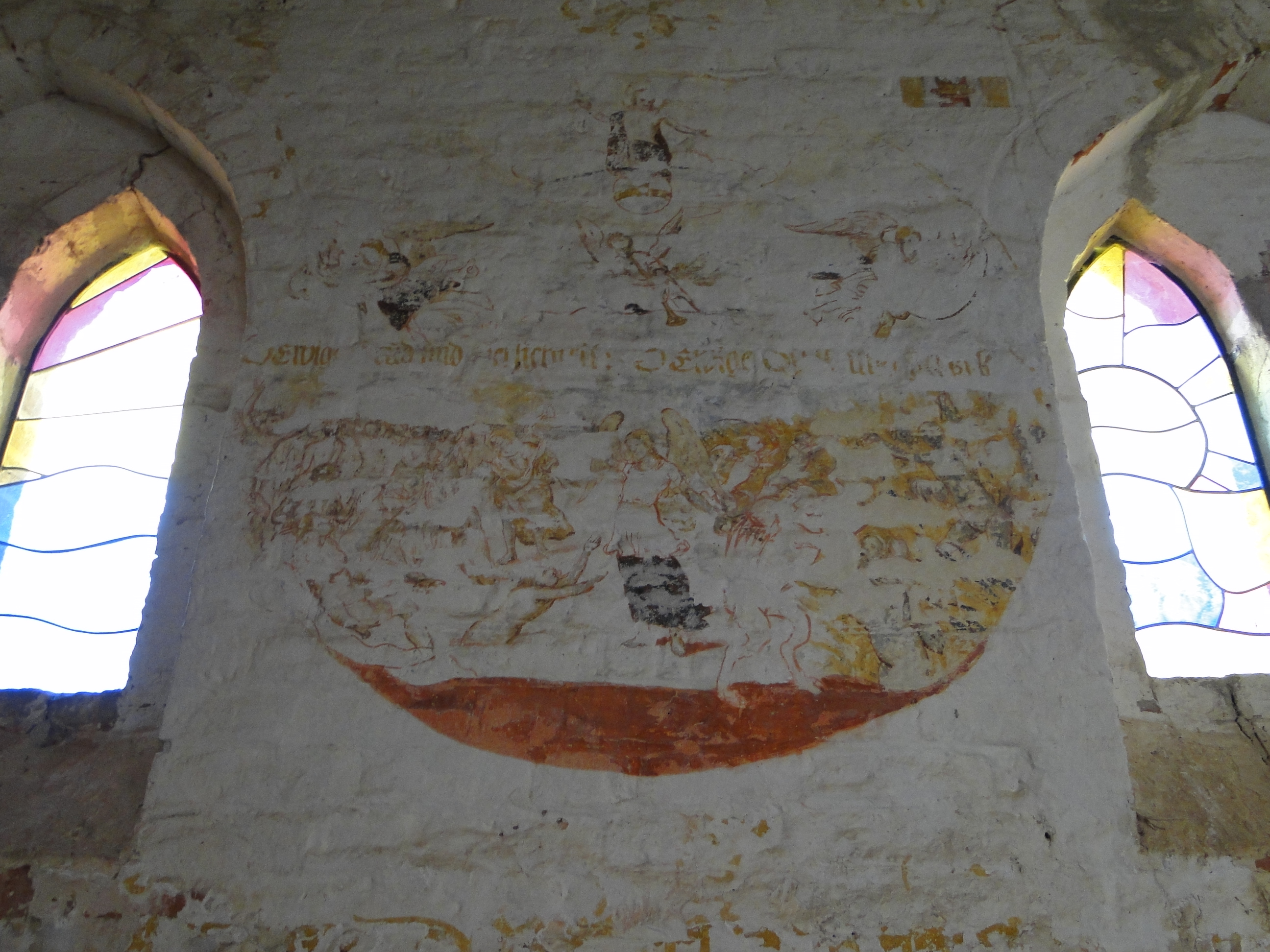 Church in Müsselmow, district Ludwigslust-Parchim, Mecklenburg-Vorpommern, Germany